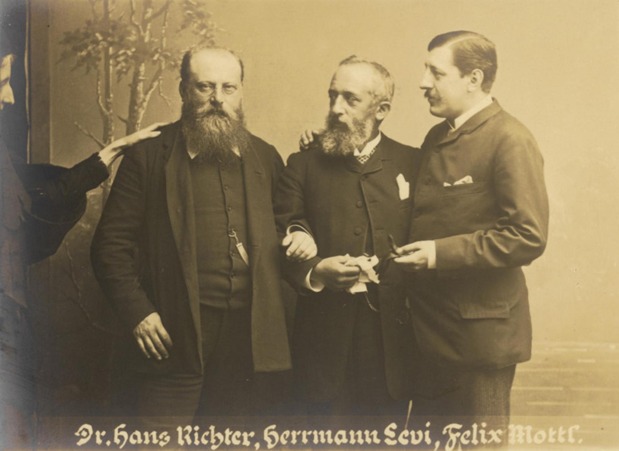 German conductors Hans Richter (1843-1916), Hermann Levi (1839-1900), Felix Mottl (1856-1911)